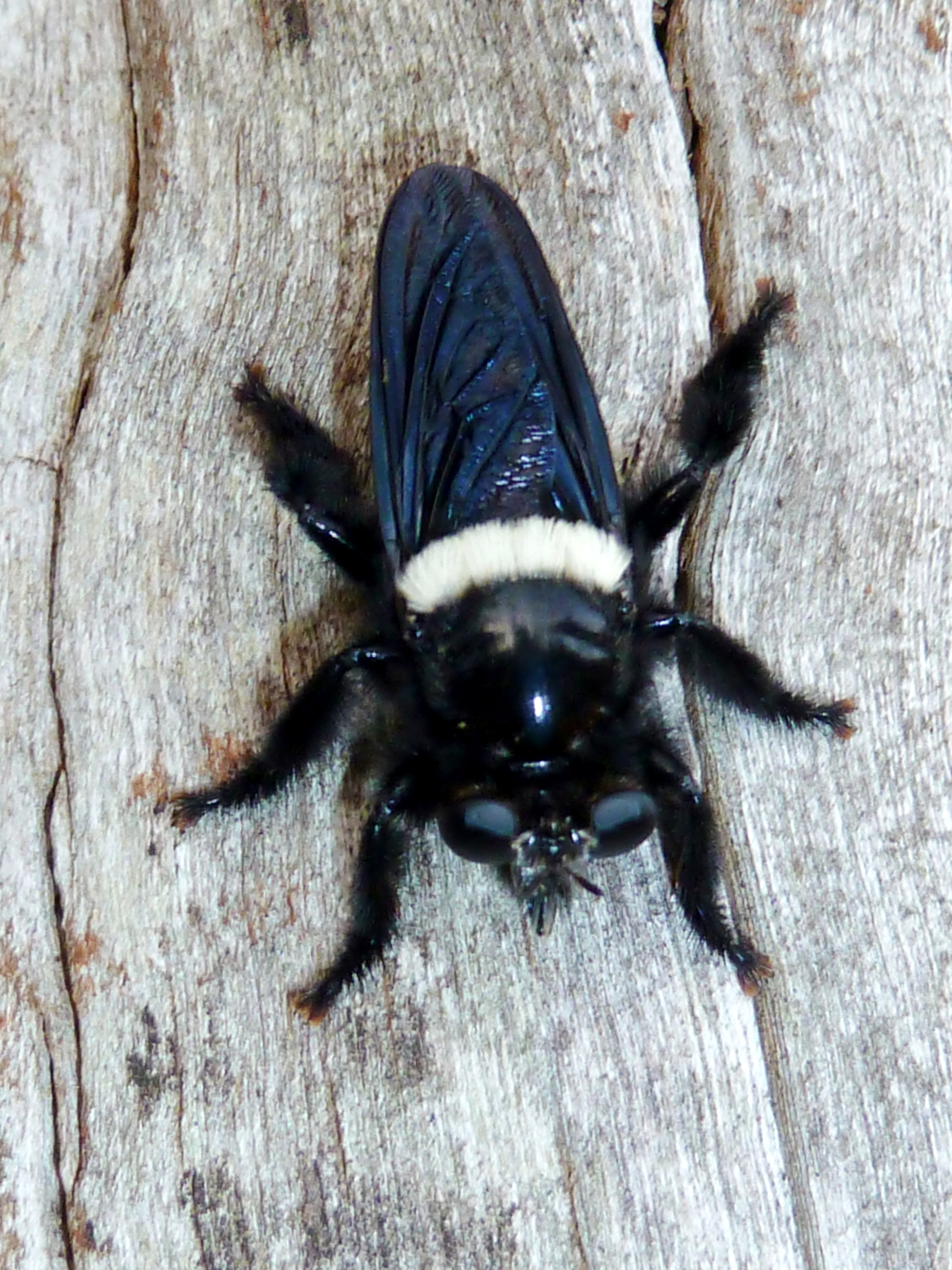 A Carpenter bee robber fly on the Springbok Flats, Limpopo, South Africa. It was observed near a female Xylocopa caffra. The Robber fly larvae parasitize the Xylocopa larvae. They bore out of the nests and leave their old larval integument hanging from the wood. The adults may also prey on the adult carpenter bees.